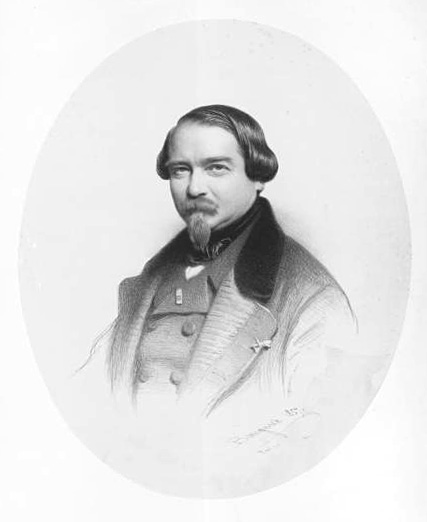 French composer Jean-Georges Kastner (1810—1867)